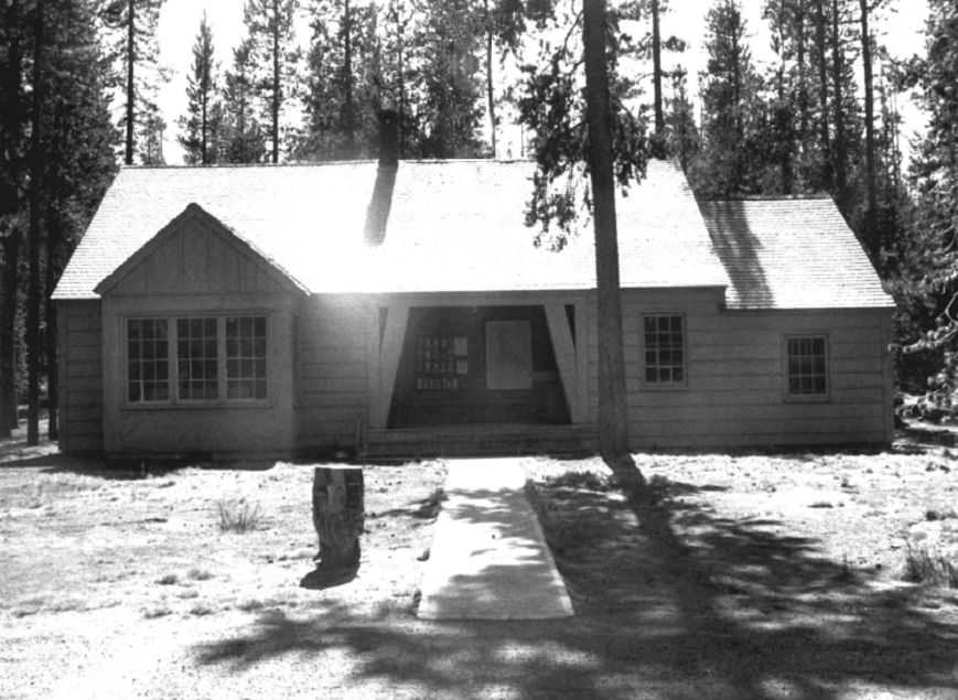 The Paulina Lake Guard Station located in the Deschutes National Forest, near Bend, Oregon, United States. The guard station is listed on the US National Register of Historic Places (NRHP). Photo is looking west at the guard station's main entrance.